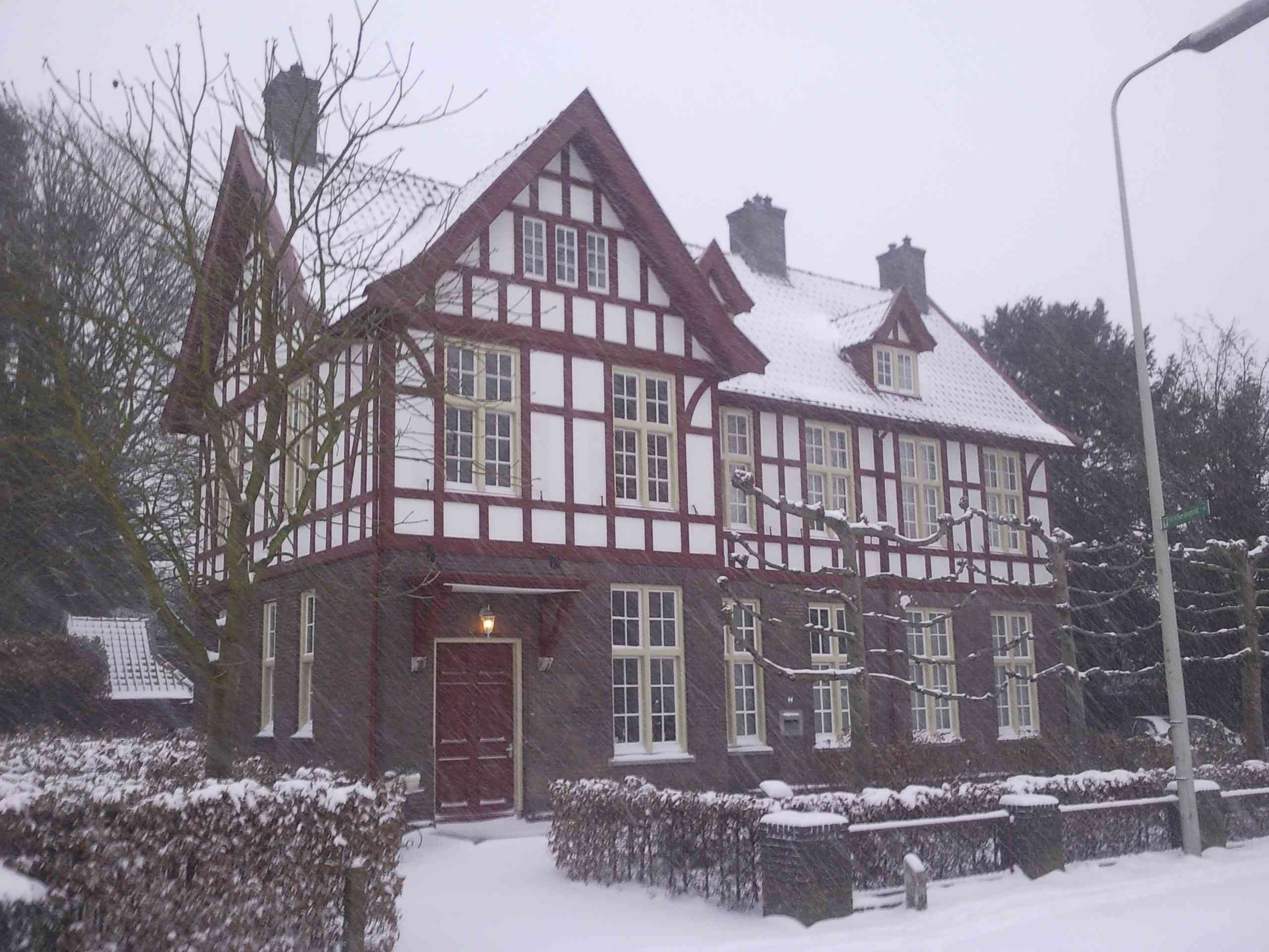 Photograph of the monumental postoffice in De Steeg (The Netherlands).